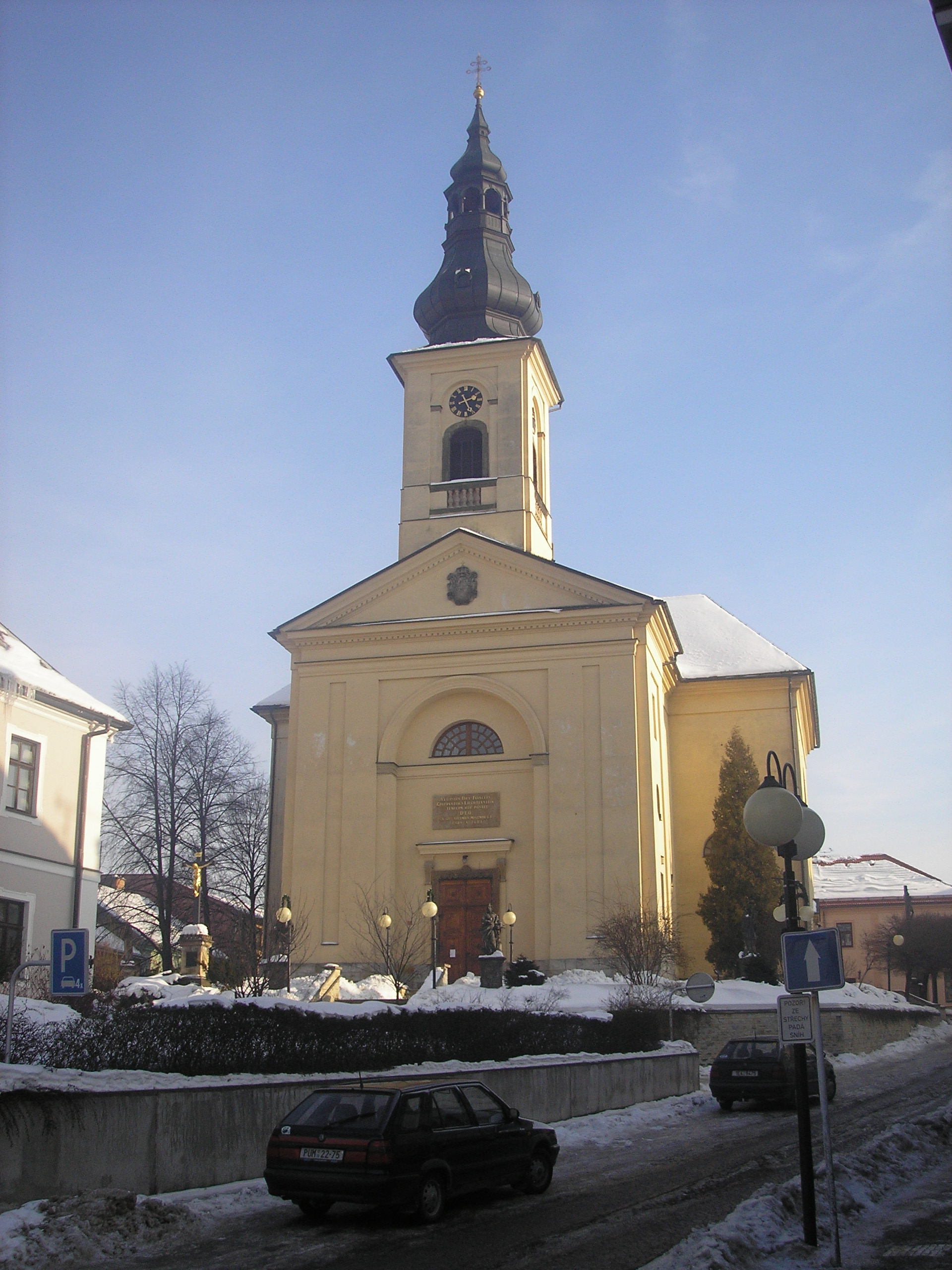 Church of St James the Great next to Old Square in Česká Třebová.